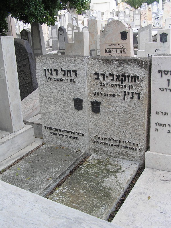 Tomb of Yehezkel and Rachel danin in Trumpeldor cemetery in Tel Aviv photographed by eman, February 2006